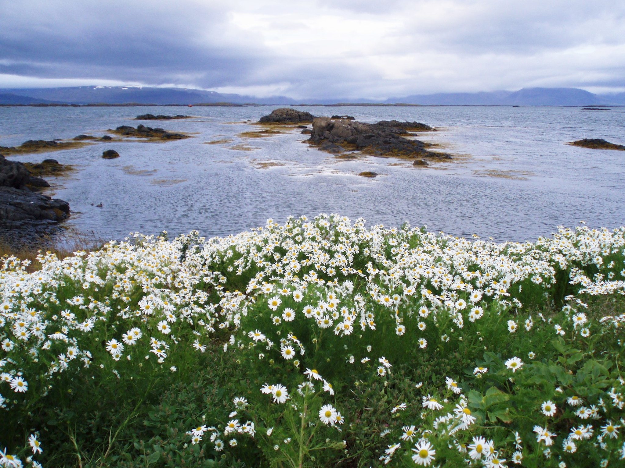 Tripleurospermum maritimum subsp inodorum (L.) Hyl. ex Vaar. in Iceland, accepted name : Matricaria perforata Mérat but Tripleurospermum maritimum is the accepted name of the specie Matricaria maritima L.